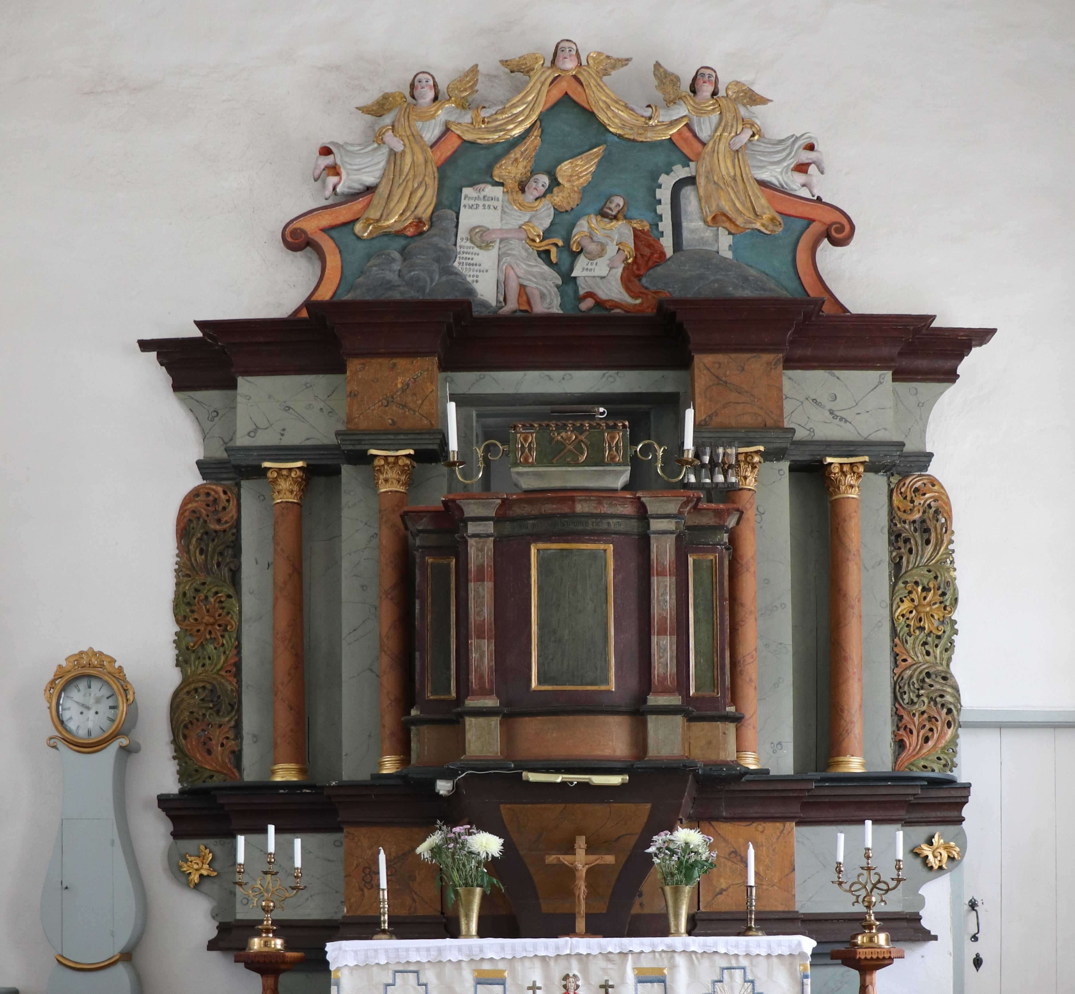 Ås Church,Öland. Altar pulpit with parts of an older altar essay by Anders Dahlström.